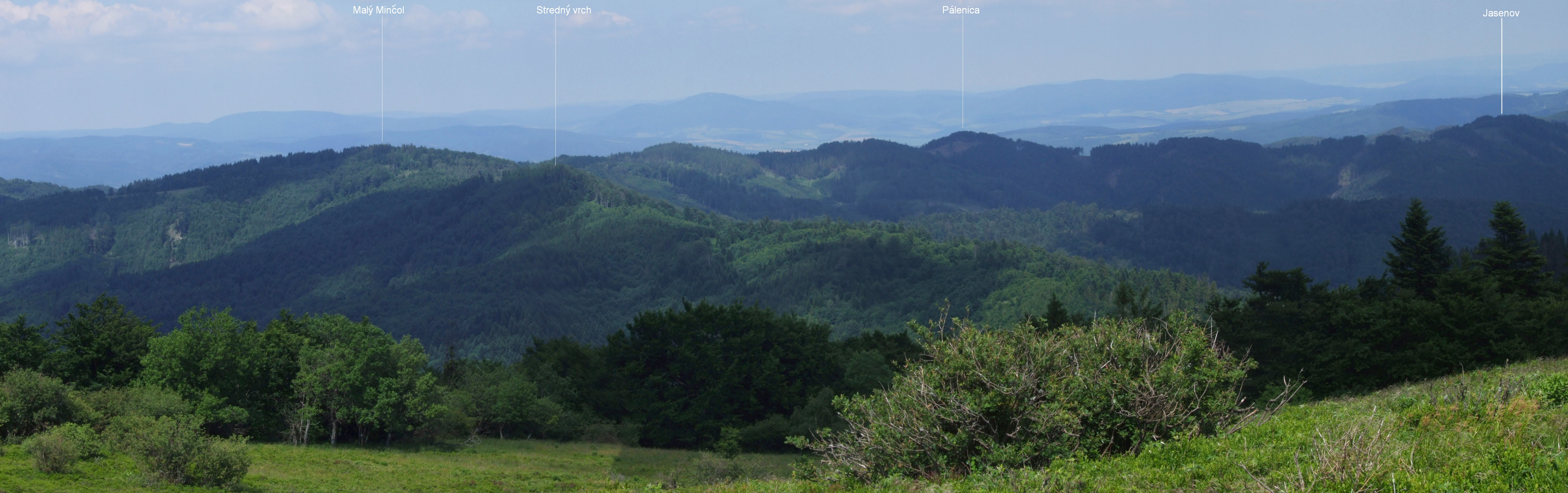 Čergov